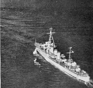 The French destroyer Simoun, ONI203 booklet for identification of ships of the French Navy, published by the Division of Naval Inteligence of the Navy Department of the United States (9 November 1942).